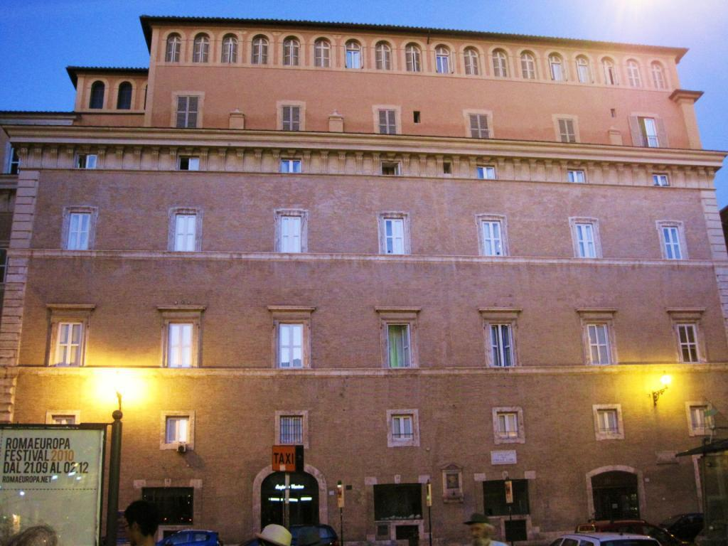 View of Domus Paulus VI from Piazza Cinque Lune.